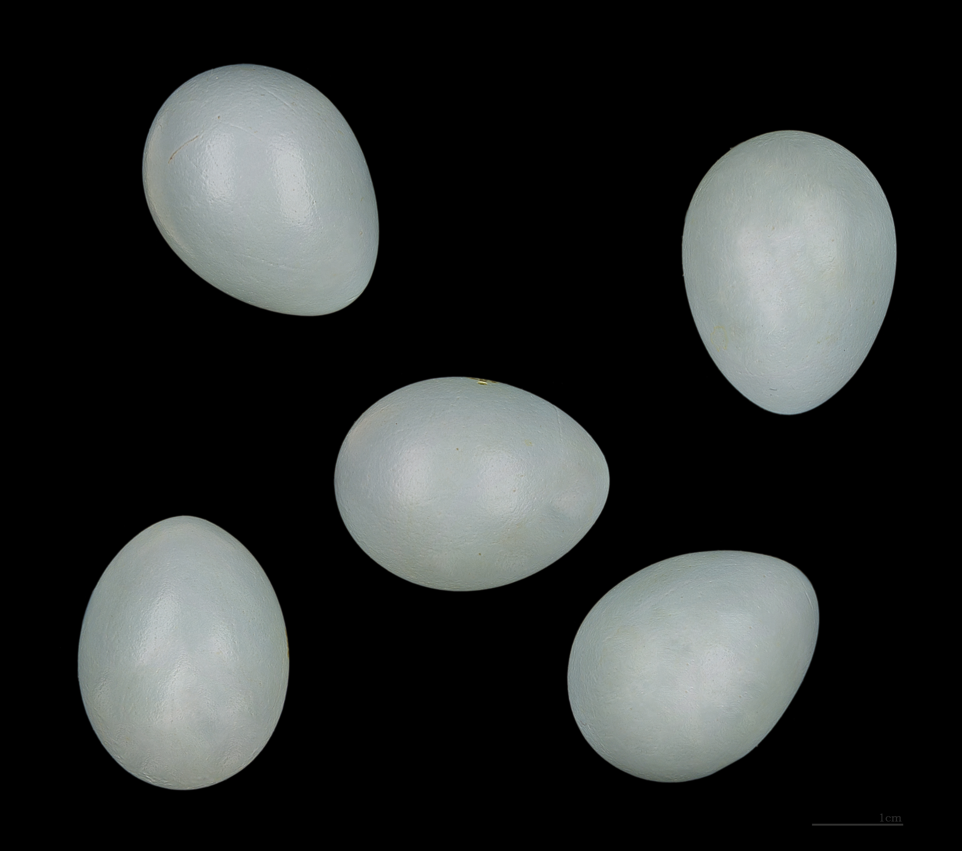 Egg of Common Starling. Collection of Jacques Perrin de Brichambaut.